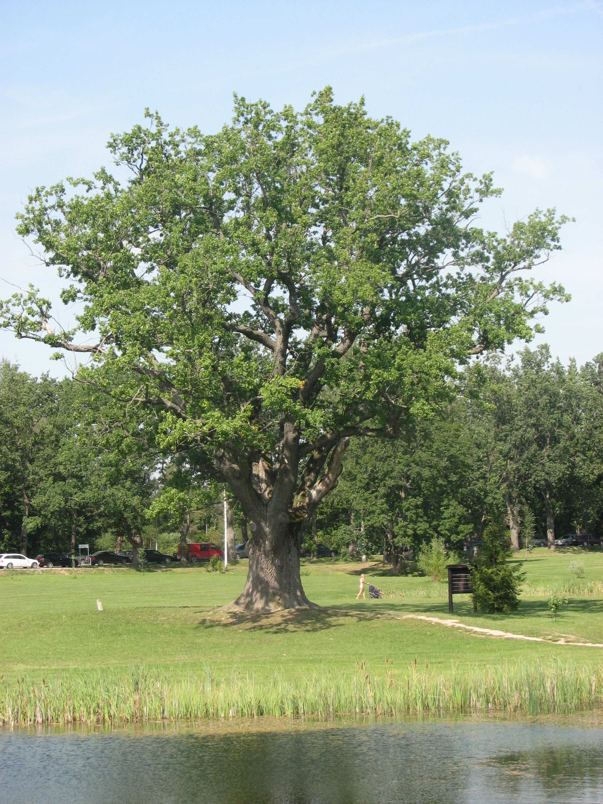 Pühajärv War Oak in Pühajärv, Estonia